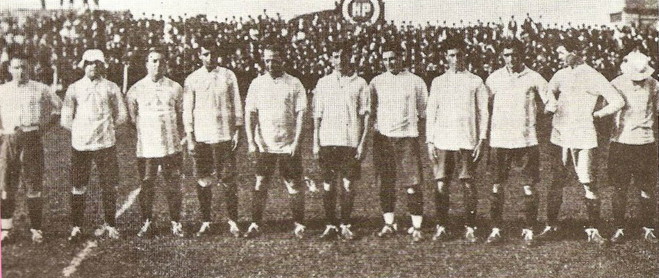 The 1921 Racing Club of Argentina team, considered the first "criollo" club.